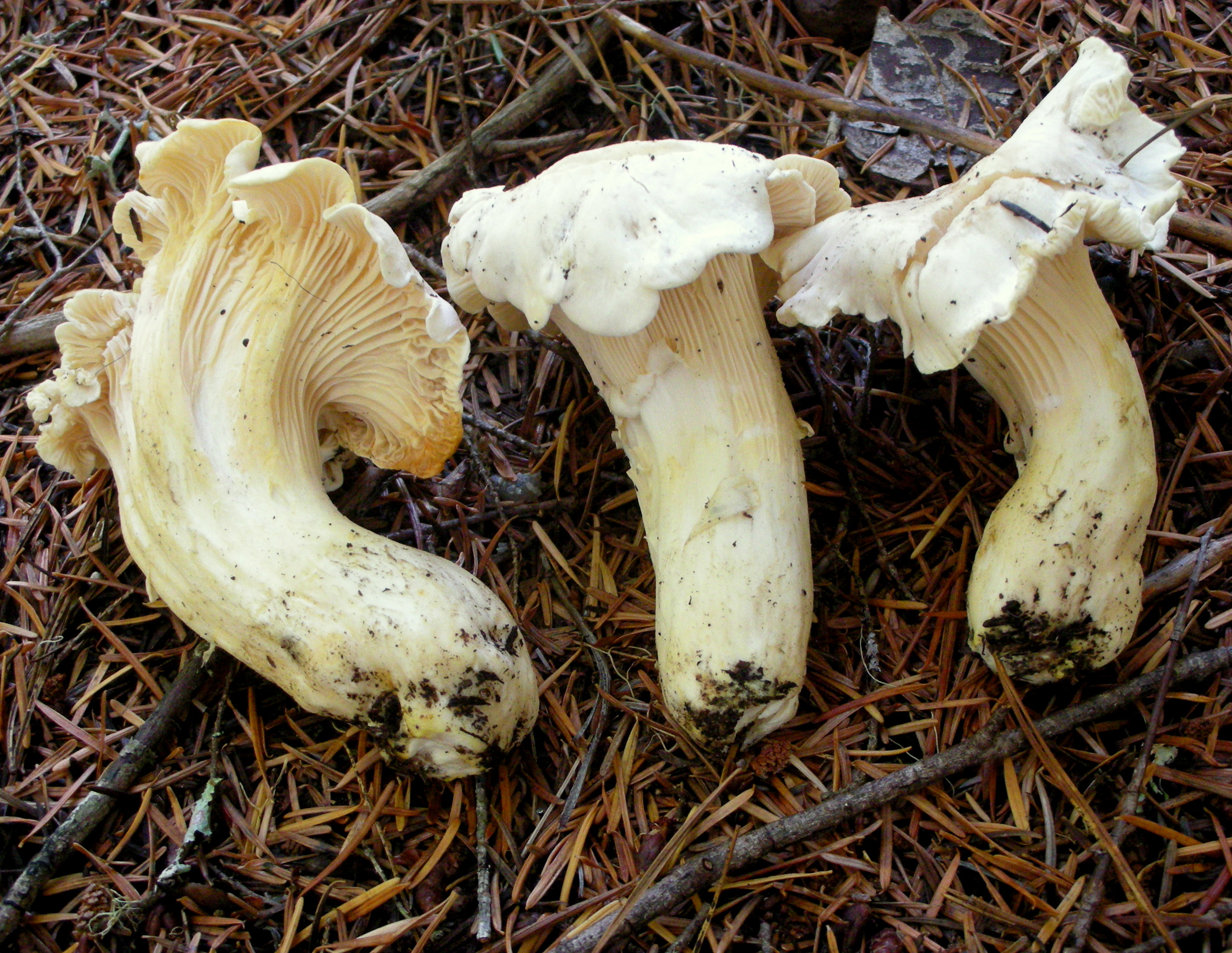 Cantharellus subalbidus Smith & Morse Location: Diamond and Crater Lake, Oregon, USA For more information about this, see the observation page at Mushroom Observer.